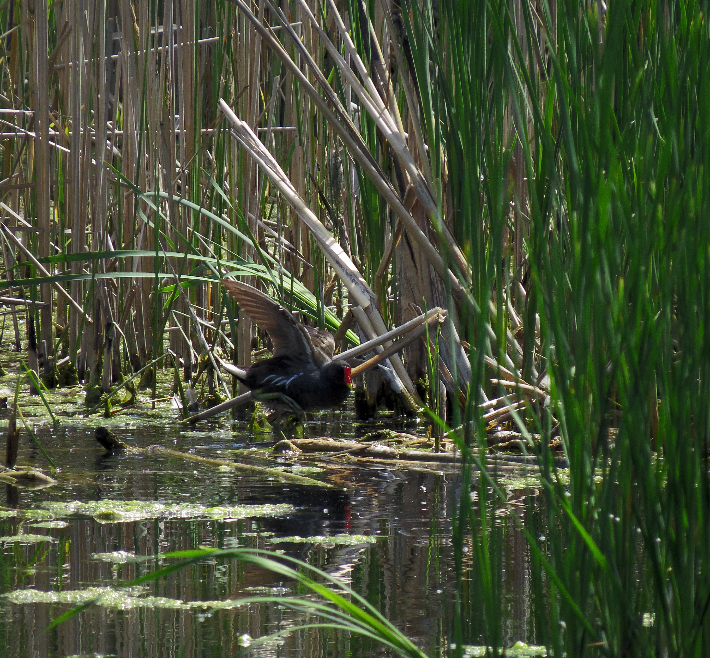 Gallinula chloropus in Nyvky park, Kiev, Ukraine